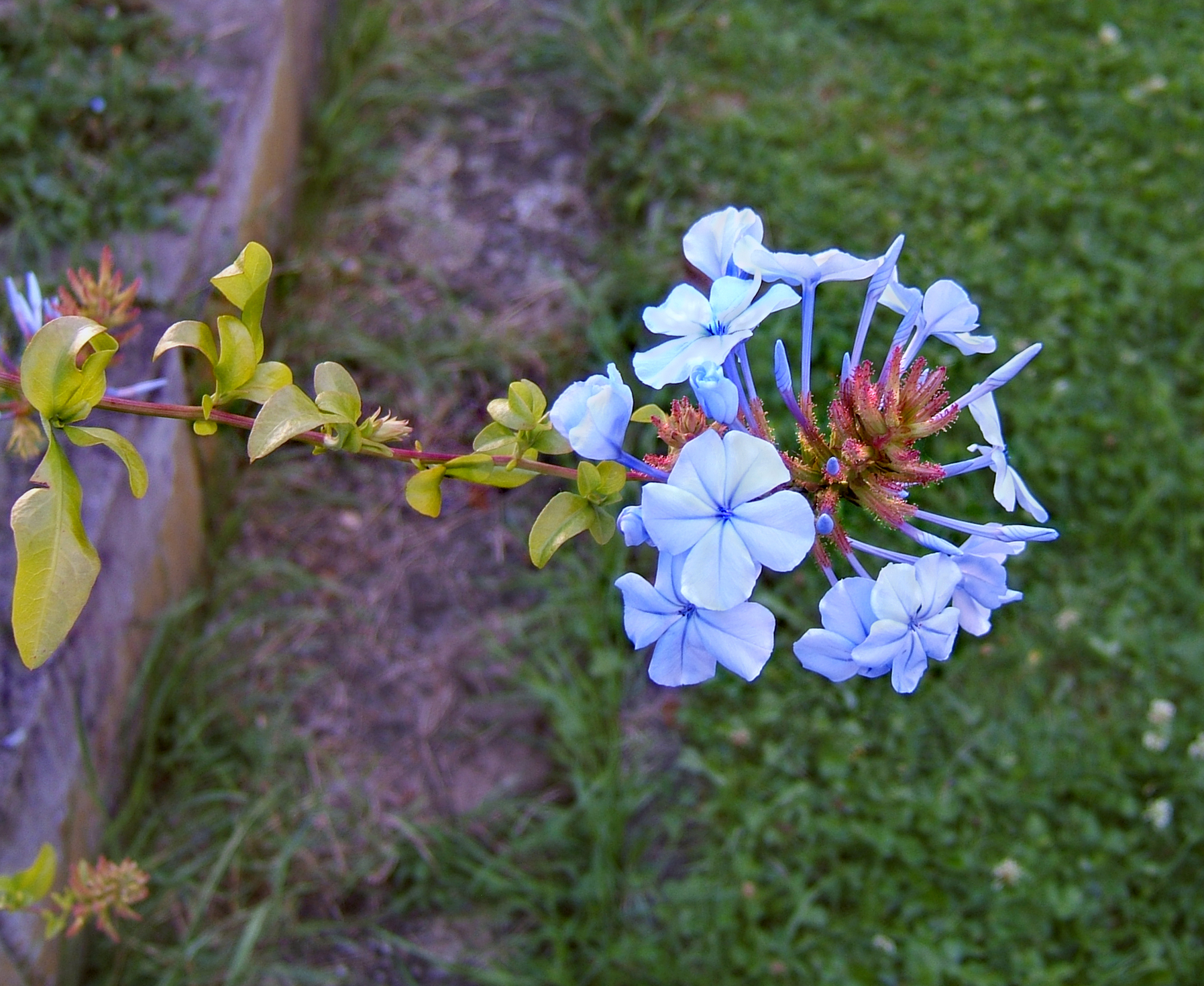 Blue plumbago, Cape blumbago, Cape leadwort